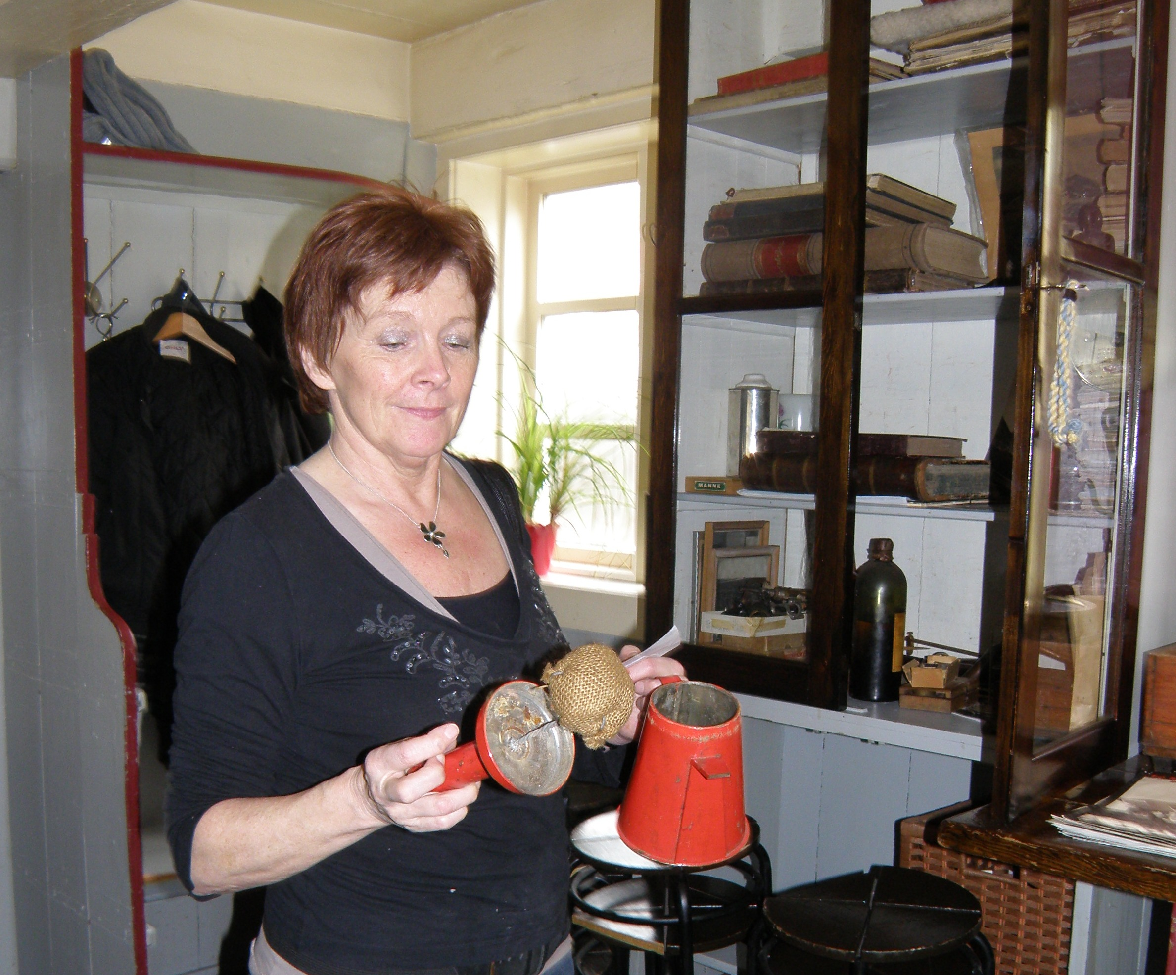 Anna Kirstin Thomsen from Tvøroyri in the Faroe Islands is holding an old emergency lamp, which was used by boat in the Faroe Islands in the old days. The photo is taken inside the Old Shop in Tvoroyri, which used to be a Monopoly Store until 1856, when a new law opened up for other shops and ended the Monopoly. Anna Kirstin's great great grandfather bought the buildings in Tvøroyri which belonged to the Royal Danish Monopoly and the buildings are still in the same family. Anna Kirstin runs today the Pub and Café, which is also a museum and the Sail Loft, which is a Cultural Centre.